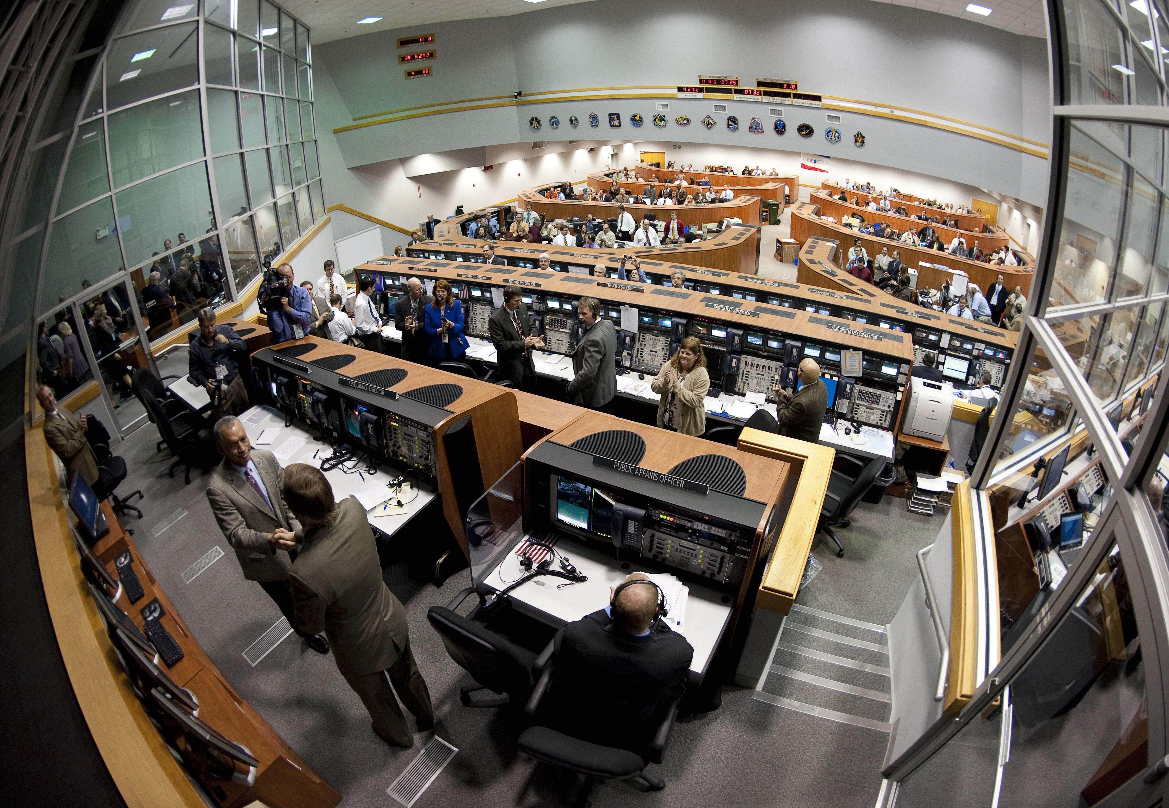 NASA Administrator Charles Bolden, left, is seen in this fish-eye view as he congratulates NASA Shuttle Launch Director Michael Leinbach and the launch team in Firing Room Four of the Launch Control Center for a successful launch of the space shuttle Endeavour and the start of the STS-130 mission at NASA Kennedy Space Center in Cape Canaveral, Fla. Endeavour and its crew will deliver to the International Space Station a third connecting module, the Italian-built Tranquility node and the seven-windowed cupola, which will be used as a control room for robotics.